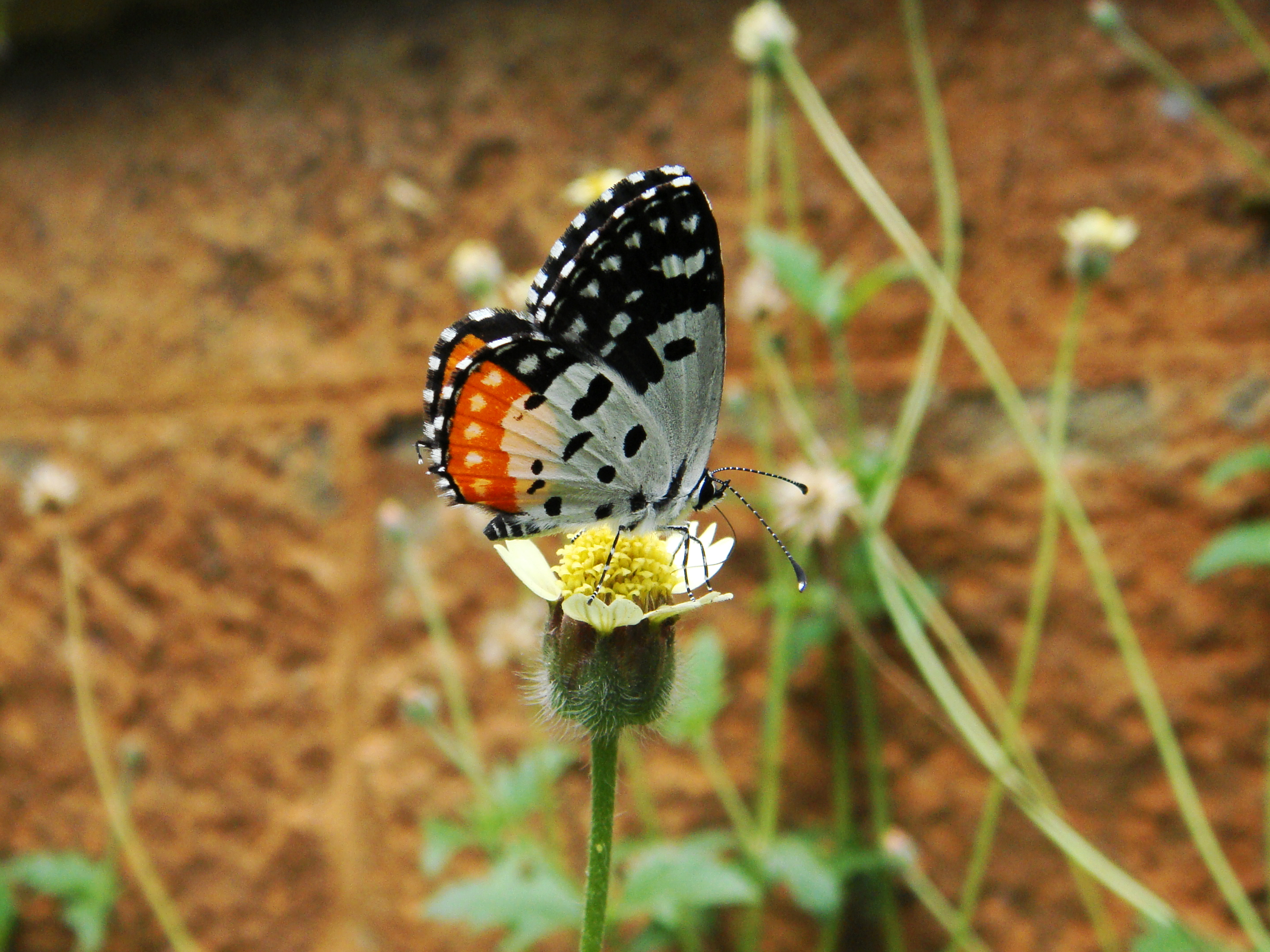 A Red Pierrot I caught feeding at the M.E.S. Abasaheb Garware College (Pune, India) campus